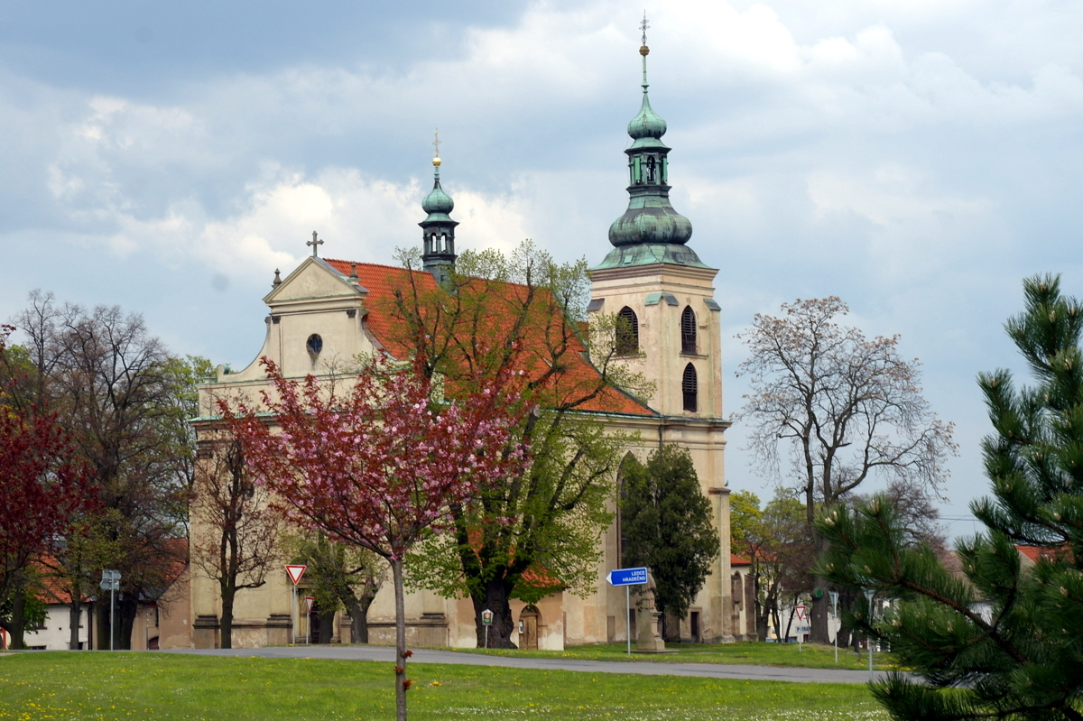 Holy Trinity Church, T. G. Masaryk square, Smečno, Kladno District. View from the west.